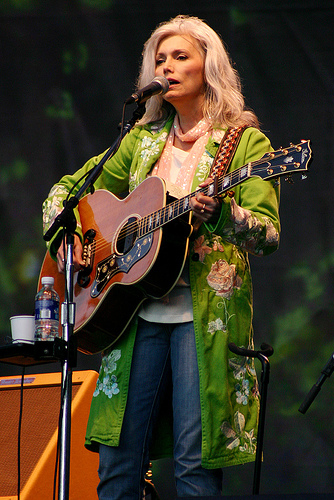 Emmylou Harris performing at Hardly Strictly Bluegrass Festival in San Francisco in 2005.Emmylou Harris